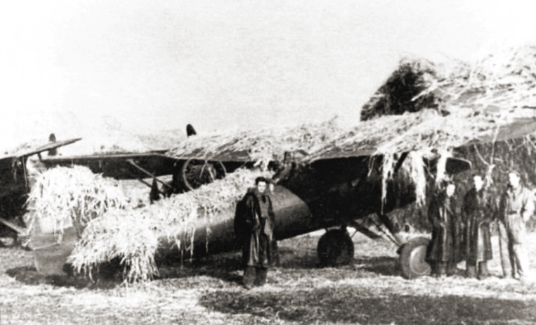 Polish fighter P-11 camouflaged in battle airfield, September 1939